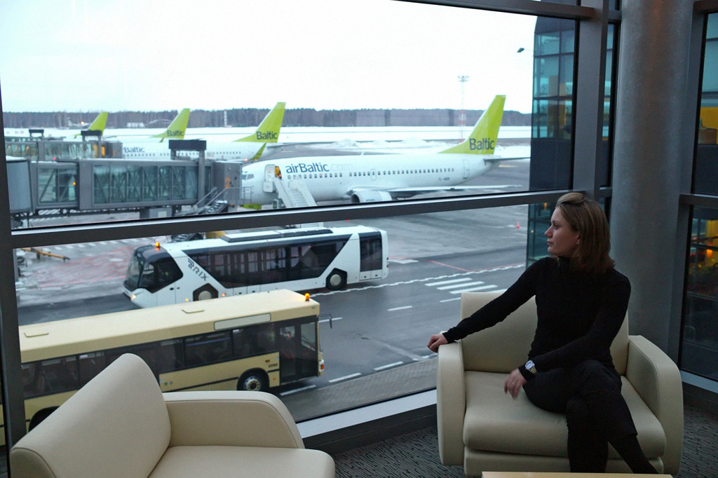 “Work of Riga International Airport”. View of the Riga International Airport's airfield at the waiting room.